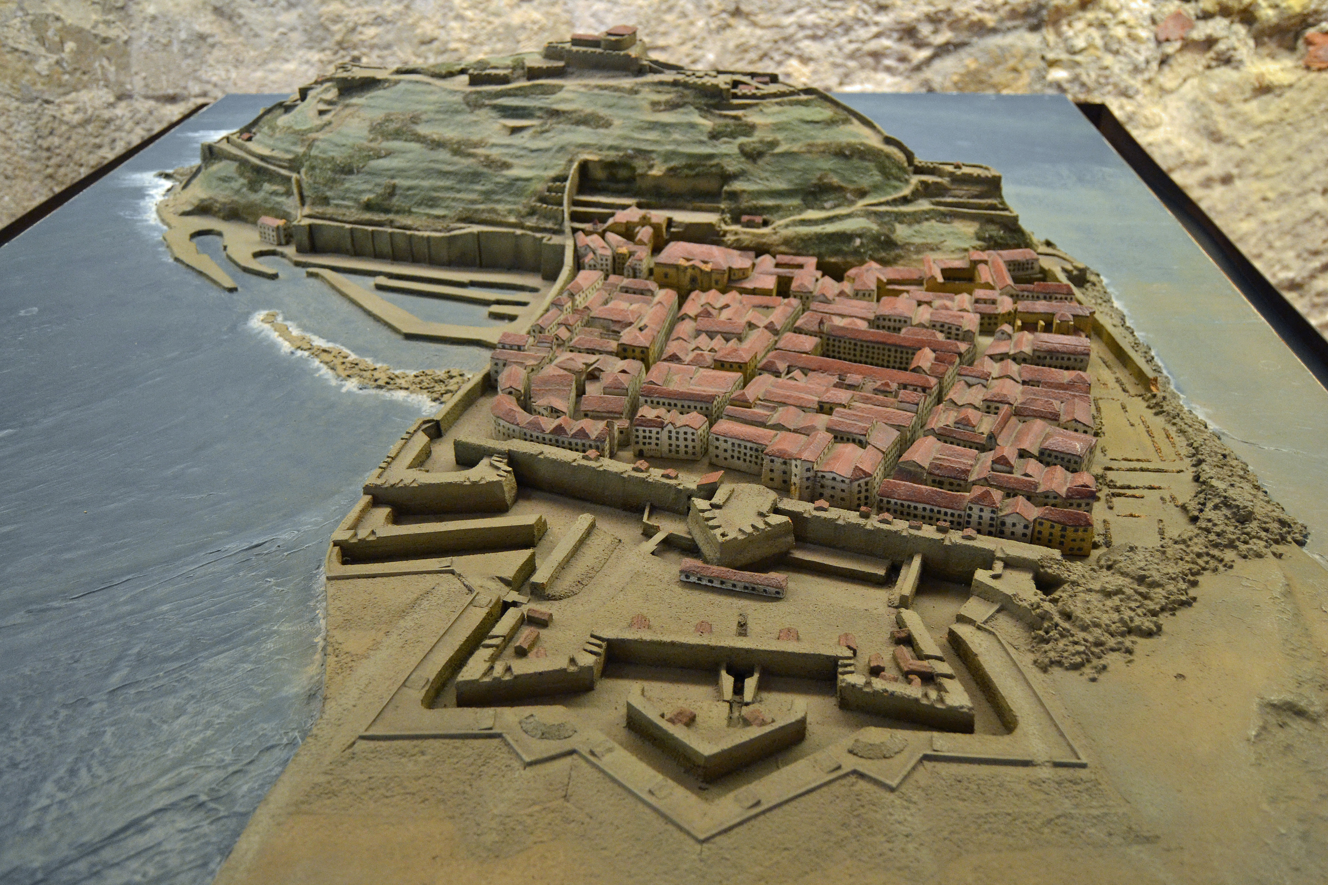 Model of ancient Donostia and its Walls, in Urgull Castle's Museum. Donostia-Saint Sebastian. Gipuzkoa, Basque Country.